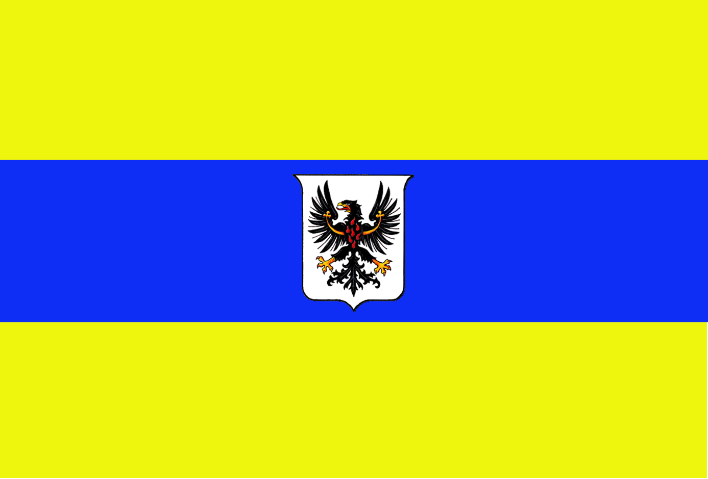 Flag of Trento